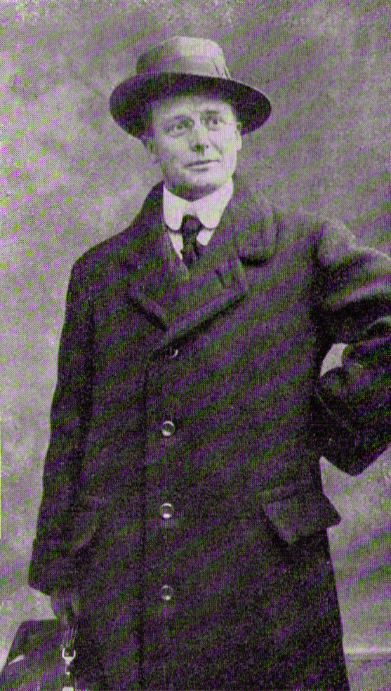 Original description (see first upload version): L'ex légionnaire Trœmel - Phot. Ouvière